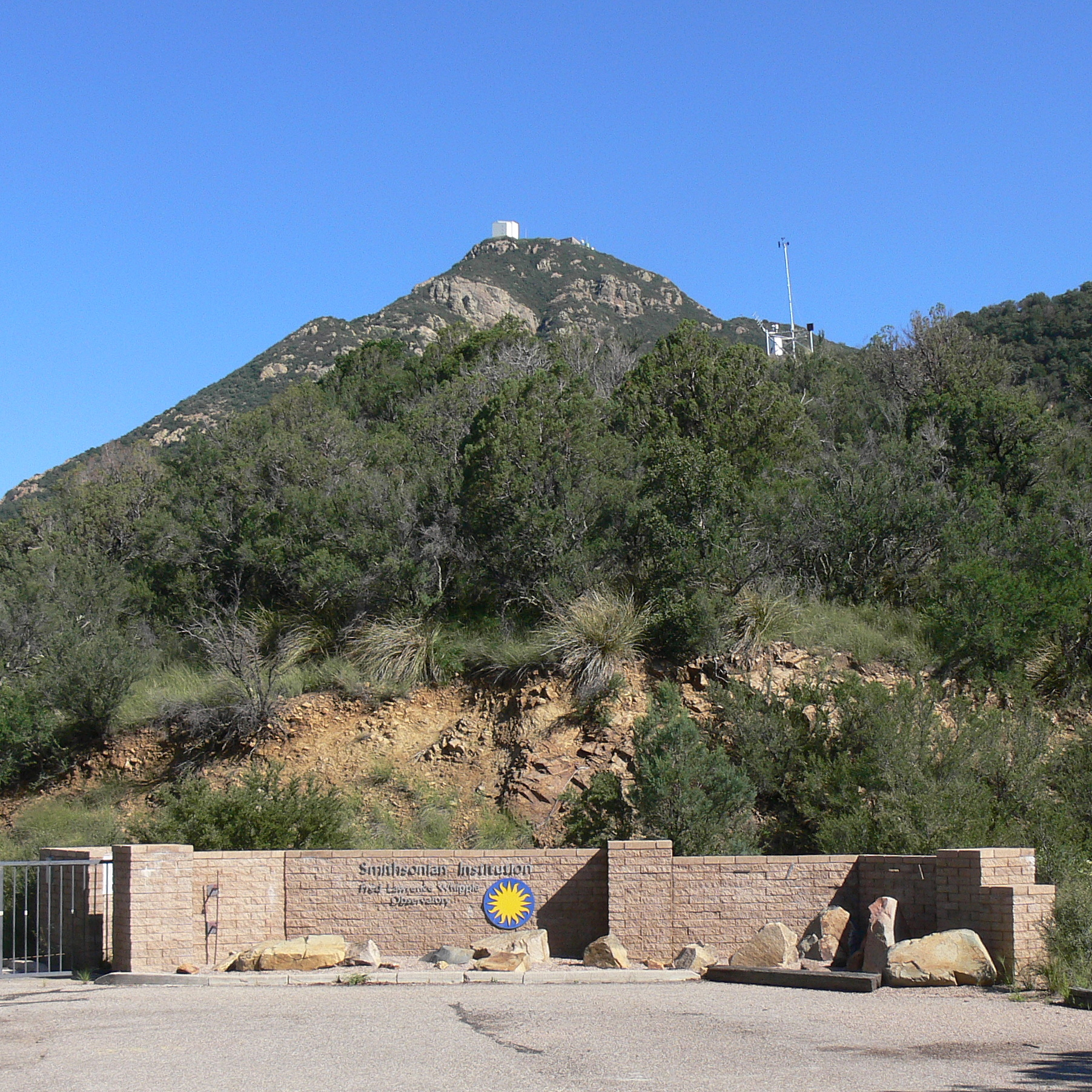 The image represents the summit of Mount Hopkins from the range Santa Rita Mountains, Arizona, USA. It was photographed from the entrance to the Fred Lawrence Whipple Observatory that has two locations, one at the bottom of the mountains and the second (this one) located on the slopes of Mount Hopkins.